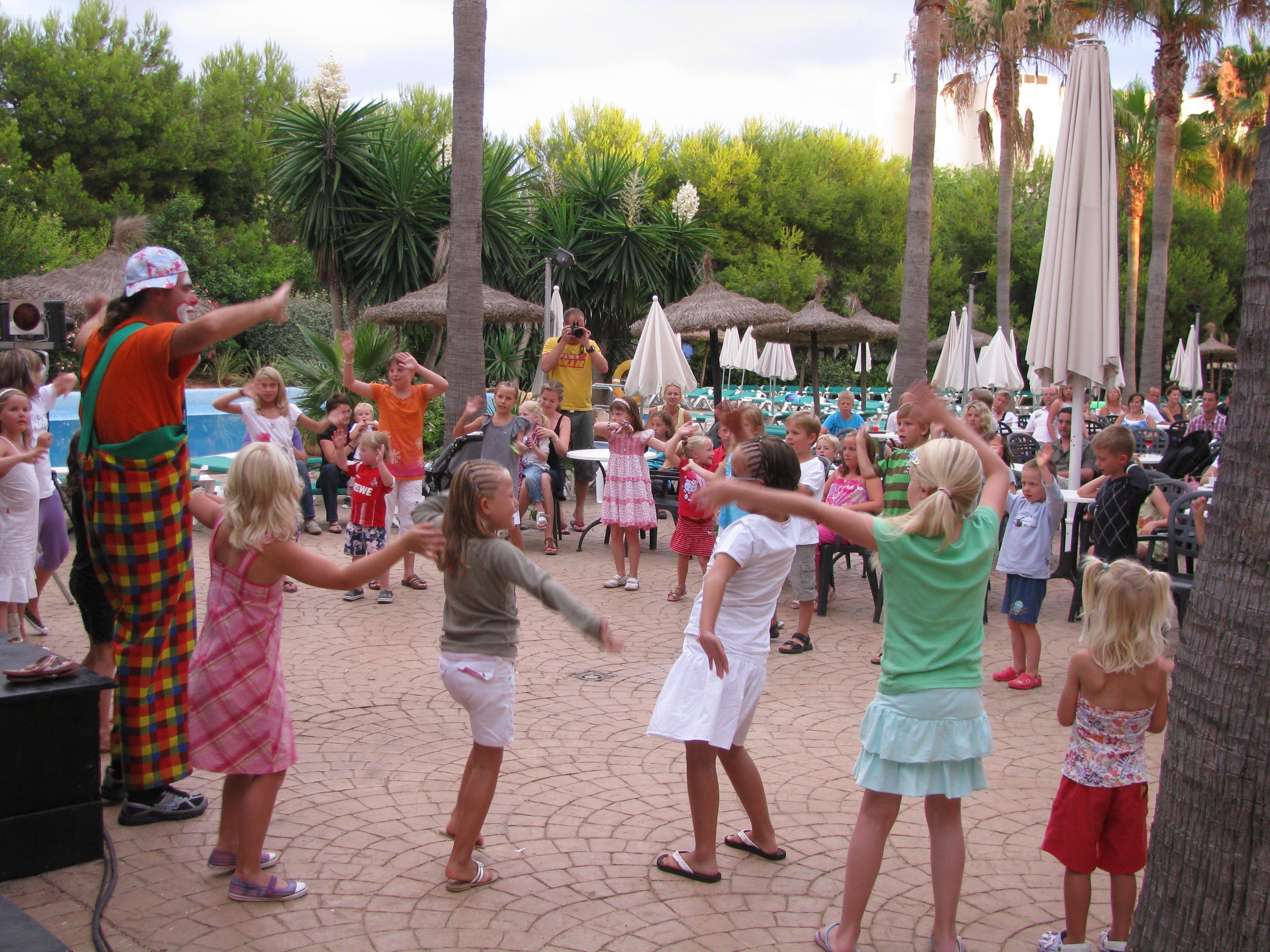 Mini disco in a club hotel in Cala Millor on Mallorca, 2010-07-24